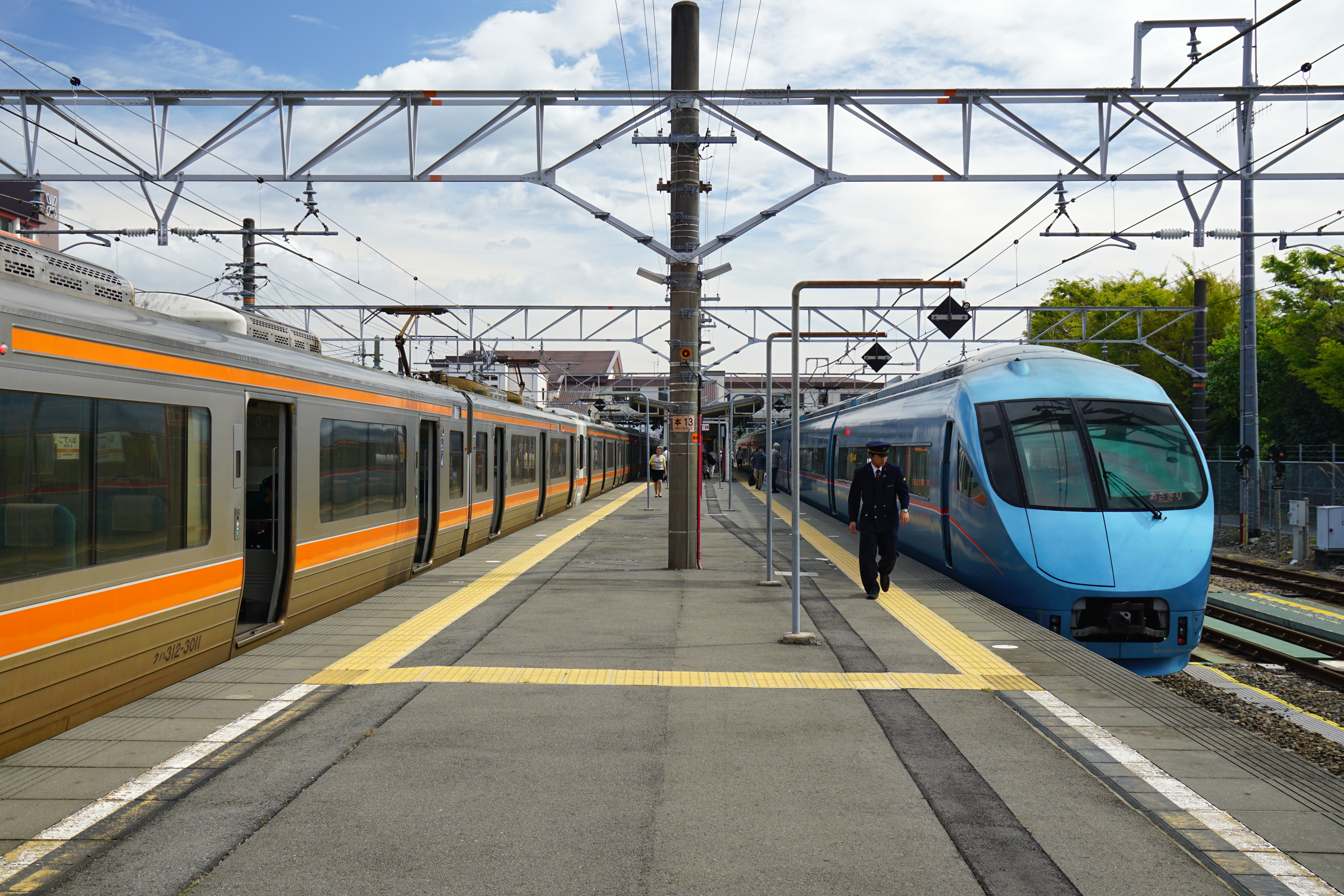 Gotemba Station in Gotemba, Shizuoka prefecture, Japan